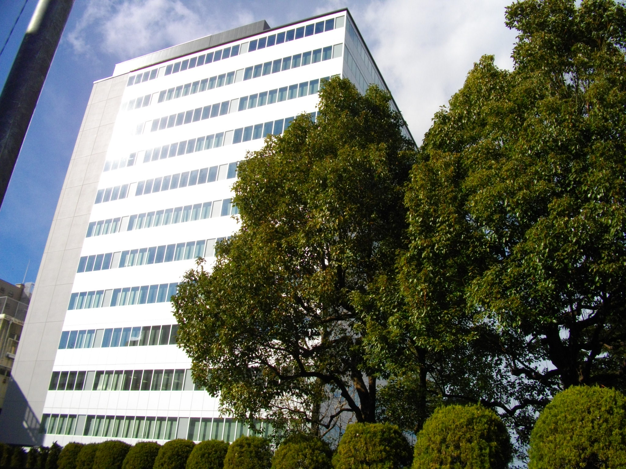 Tosho Printing Head Office